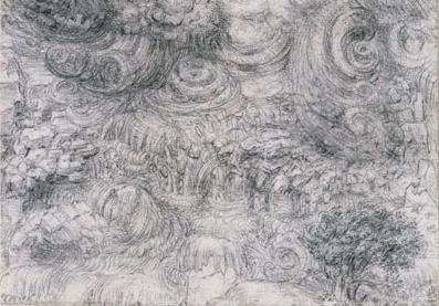 The vision of flood